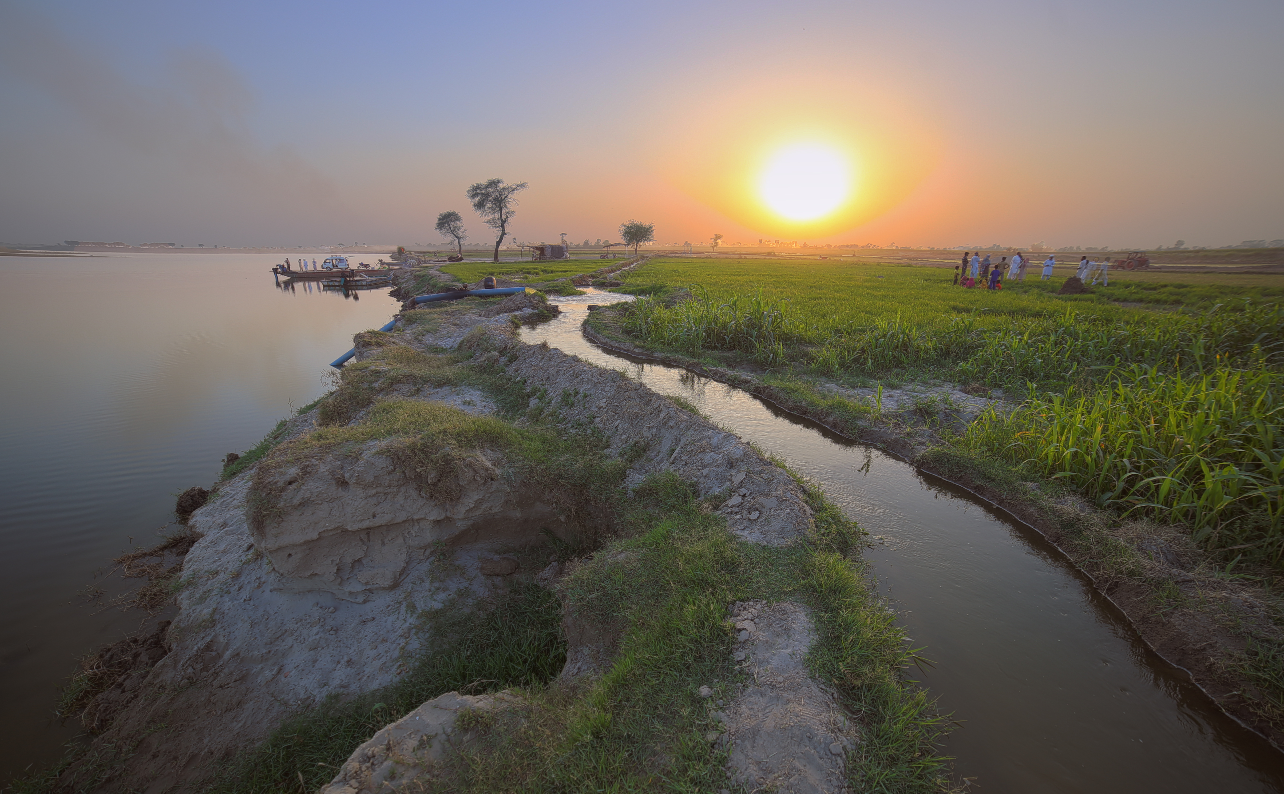 Sun sets upon a village situated at the bank of river Sutlej, near Depalpur, district Okara. What once used to be cultivated land has now been swallowed by the river, shrinking its bank to an abrupt boundary between the river and farms.